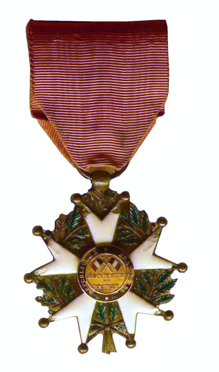 French Legion of Honour, knight insigna, IInd or IIIrd Republic